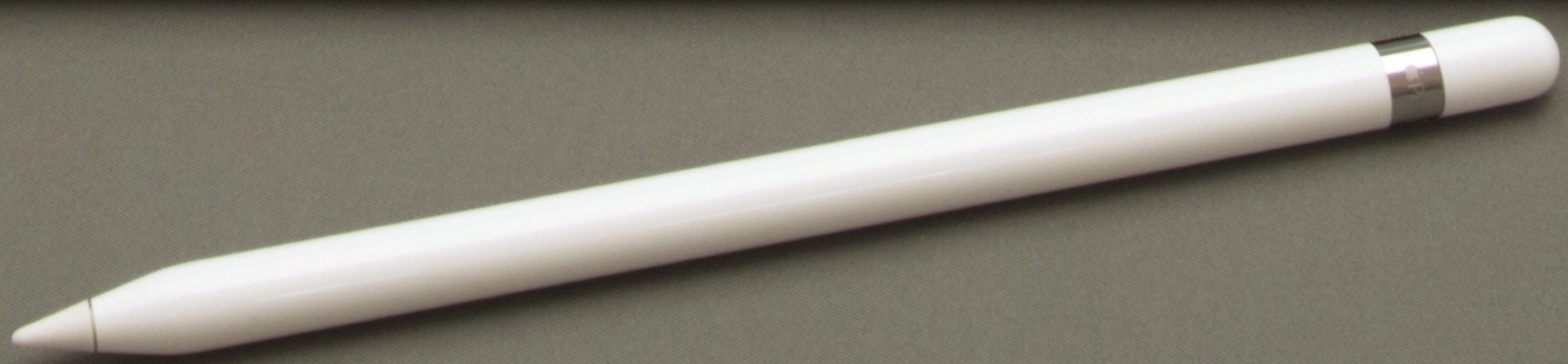 Photo of an Apple Pencil